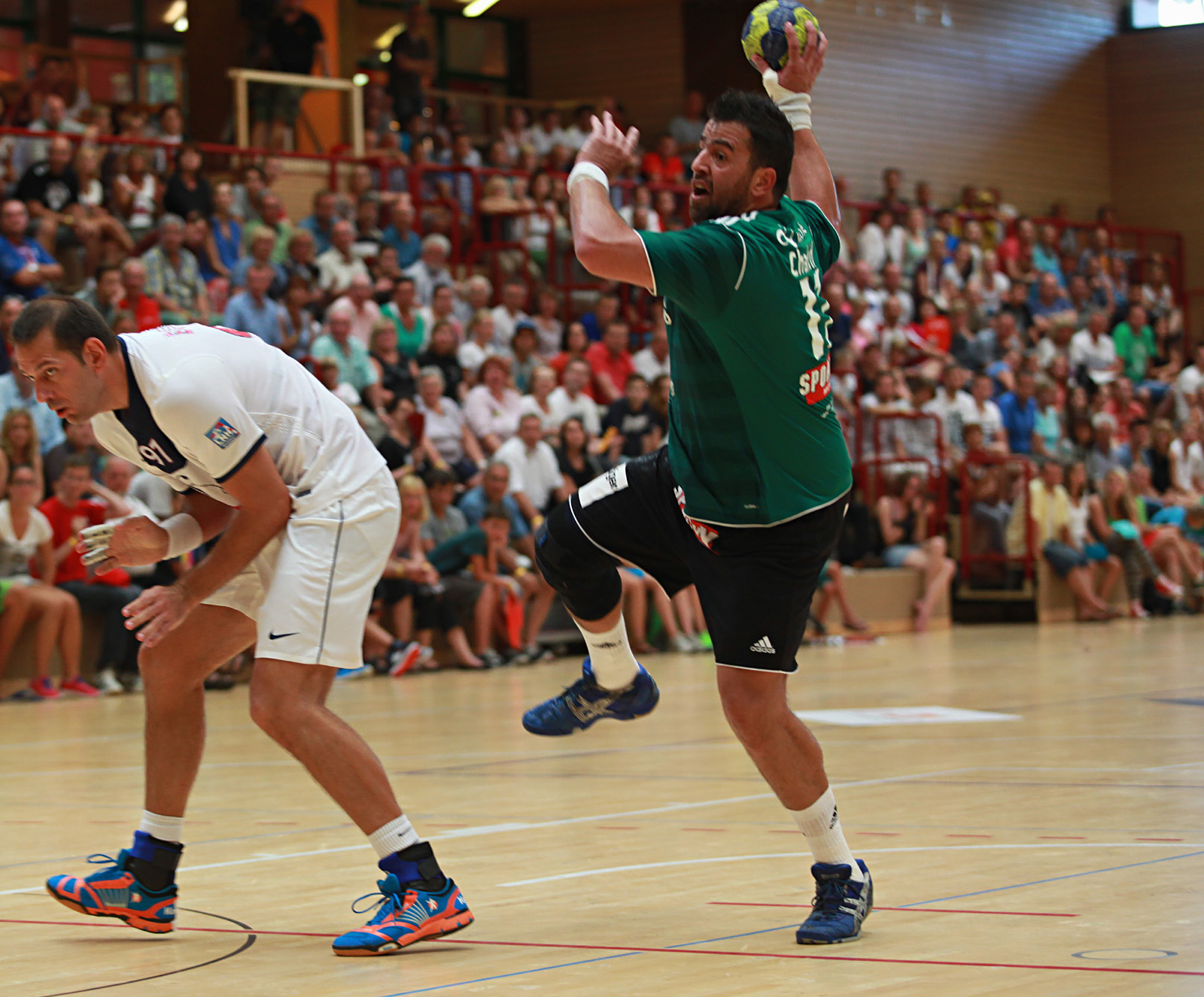 Georgios Chalkidis, on August 17th, 2012 in Ehingen (Germany), during the Sparkassen Cup (formerly known as Schlecker Cup).